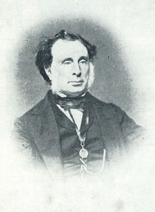 Portrait photo scanned from the biography covering his daughter.